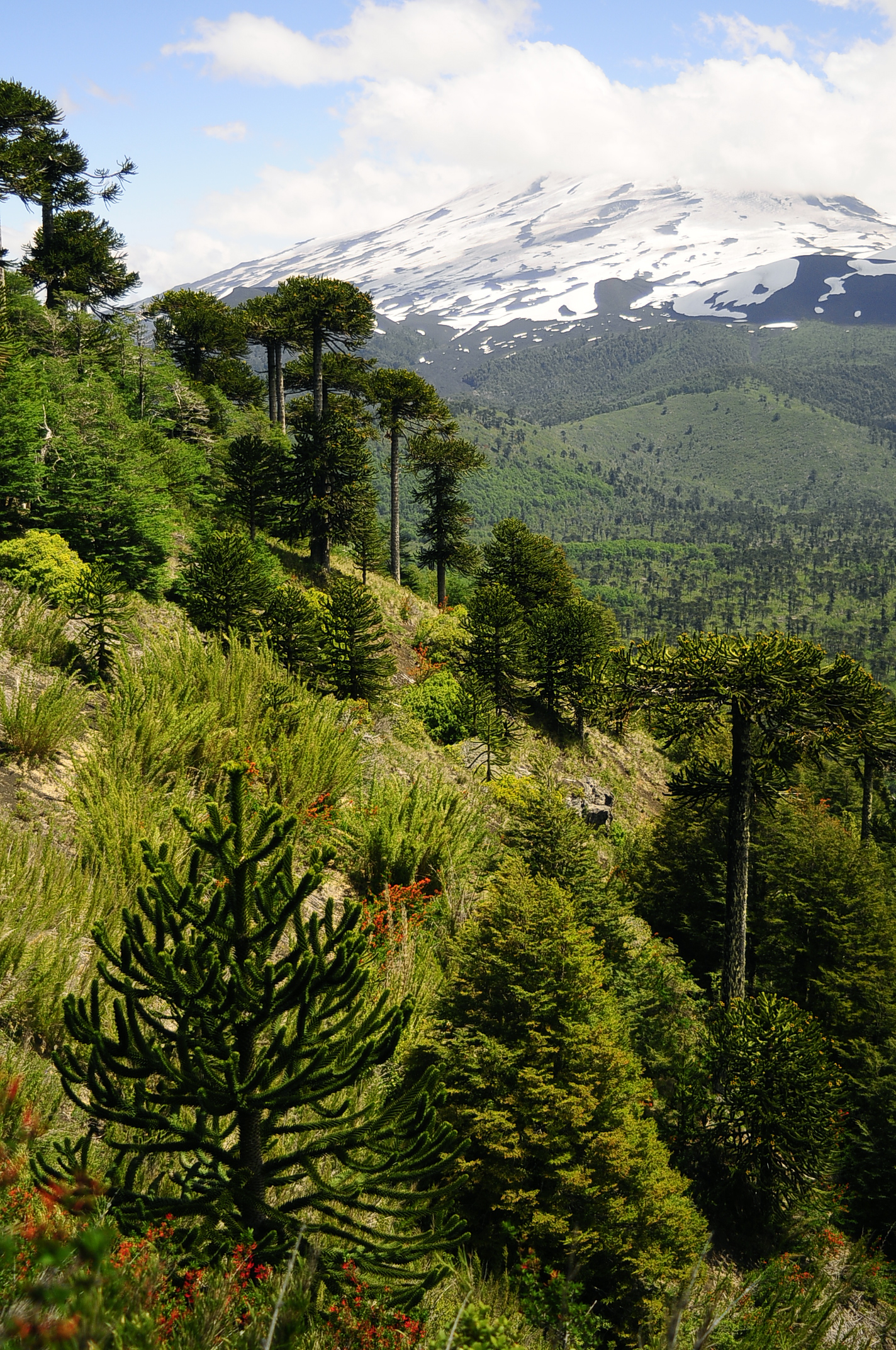 Araucaria trees of various ages. Conguillío National Park, Araucanía, Chile